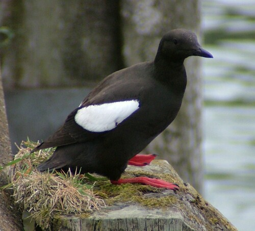 Black Guillemot taken by myself in Oban Harbour June 2005. Quentin Goodman